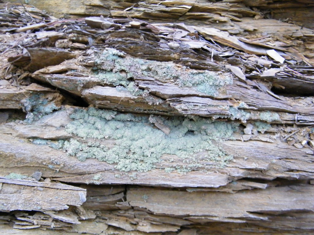 Melanterite (view is approximately 2.5 feet wide) Locality: Copperas Mountain, Paxton Township, Ross County, Ohio, USA original description: Exposure of Melanterite, or "Copperas", on the Ohio Shale at the Copperas Mountain cliff exposure, taken September 19, 2009. The field of view is approximately 2.5 feet wide. Copperas was used to dye cloth in the past.